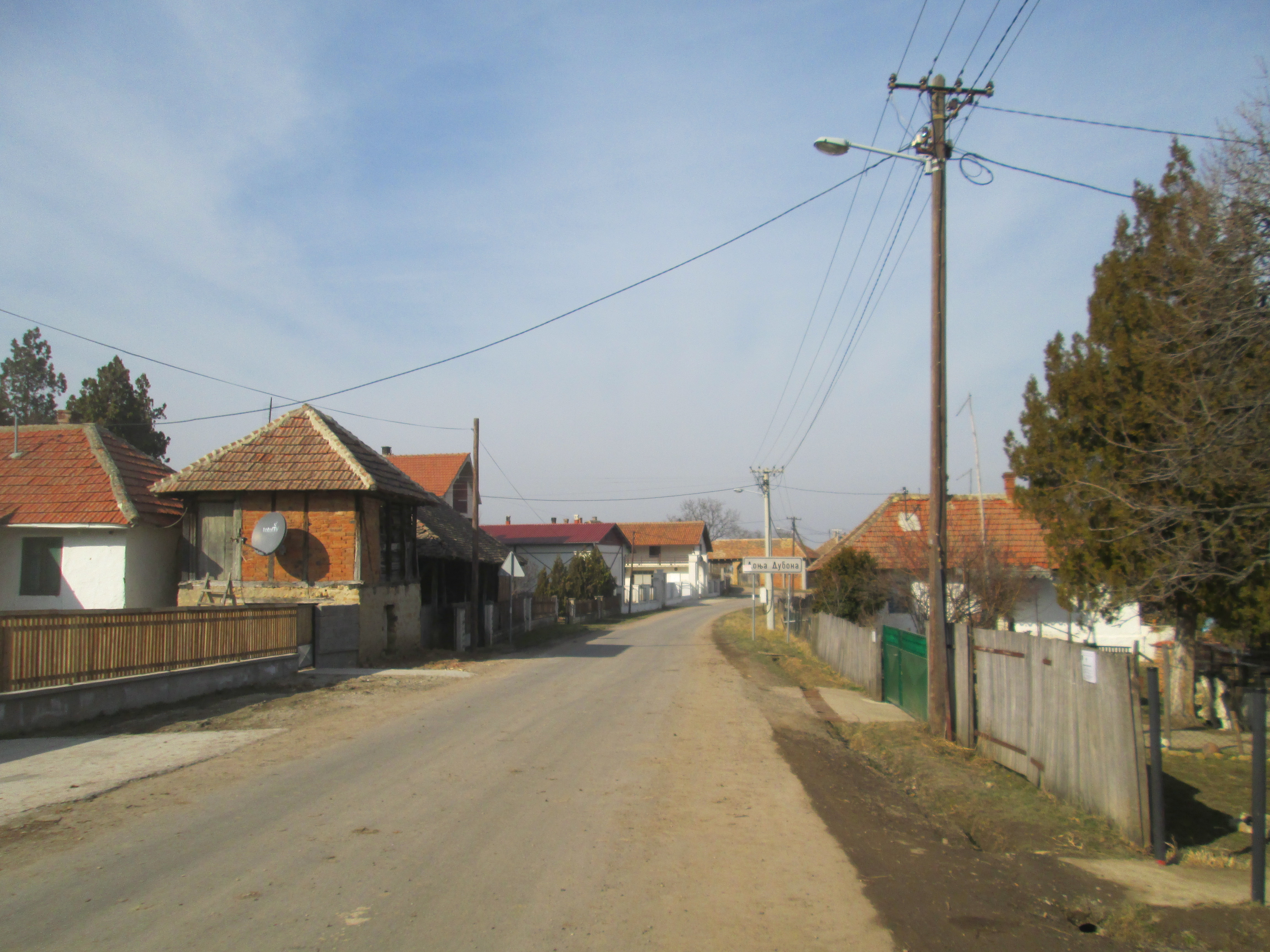 View over the village. Српски (ћирилица): Поглед на село.